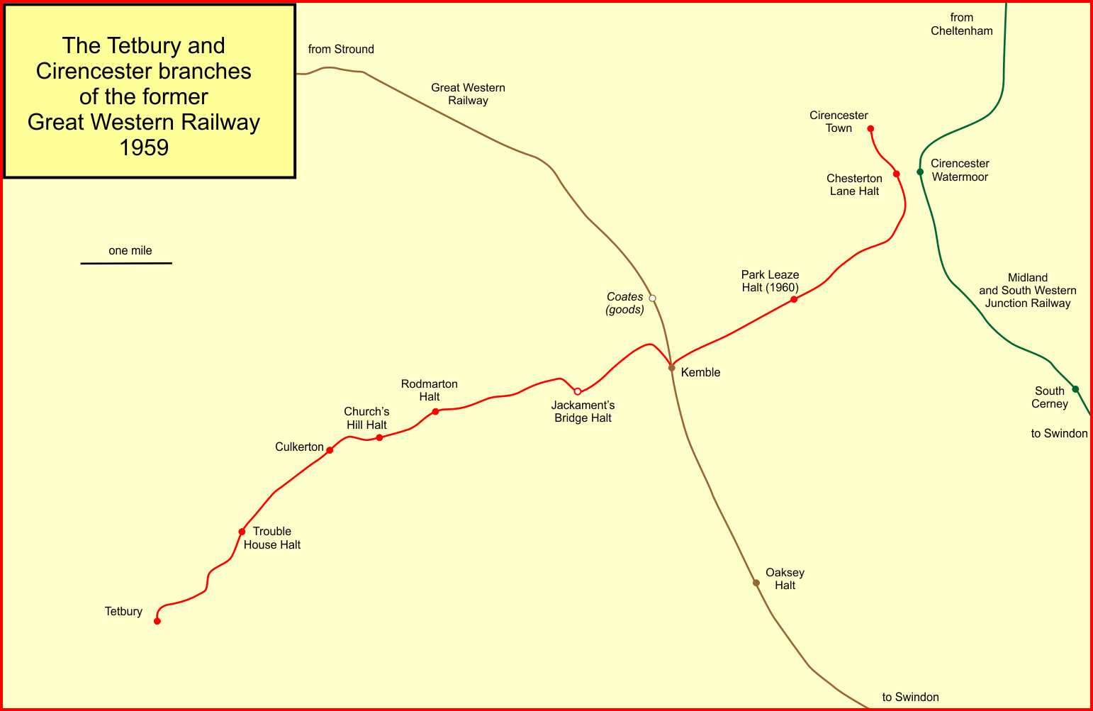 System map of the Tetbury branch line railway, England in 1959